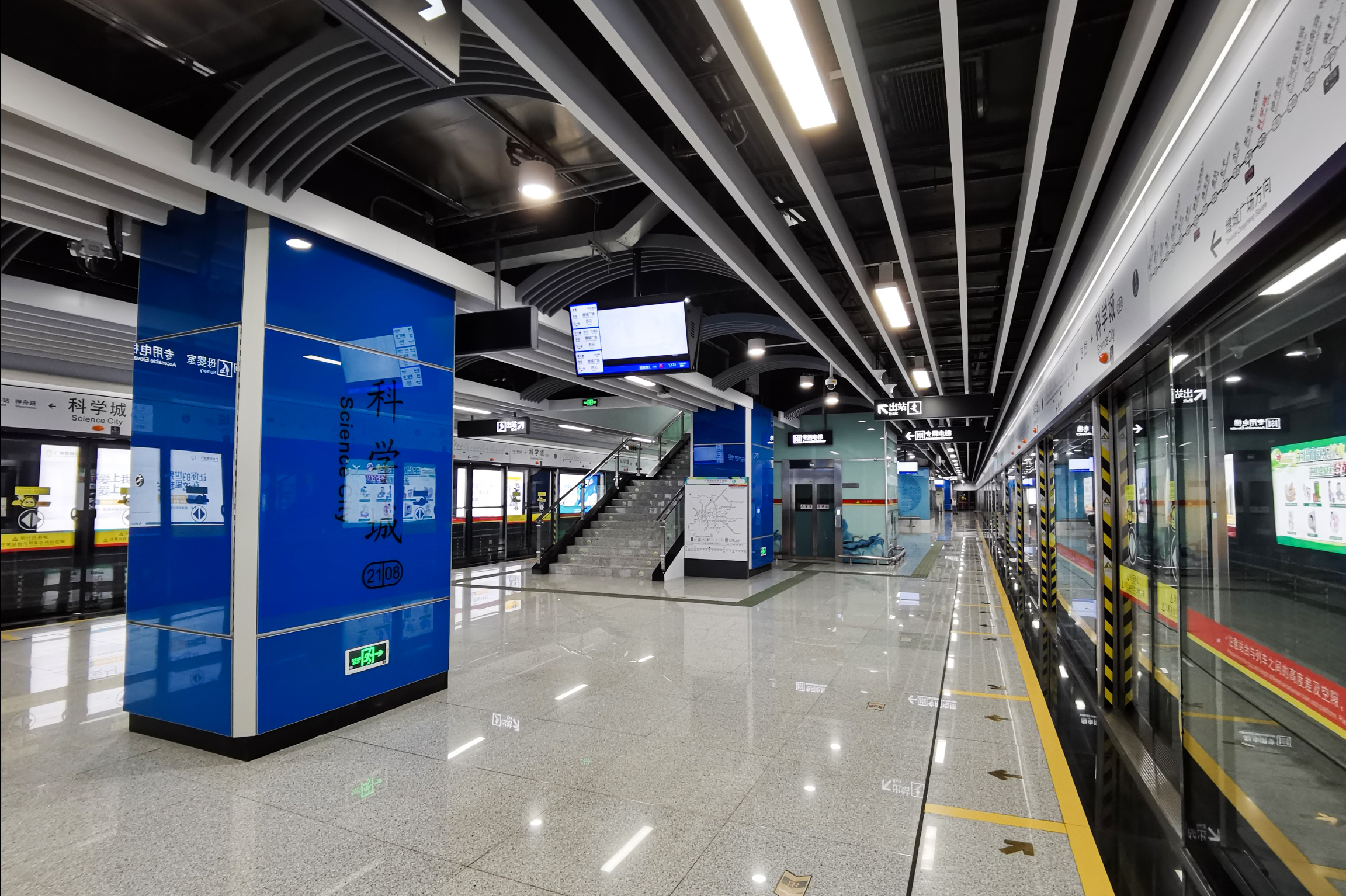 广州地铁科学城站